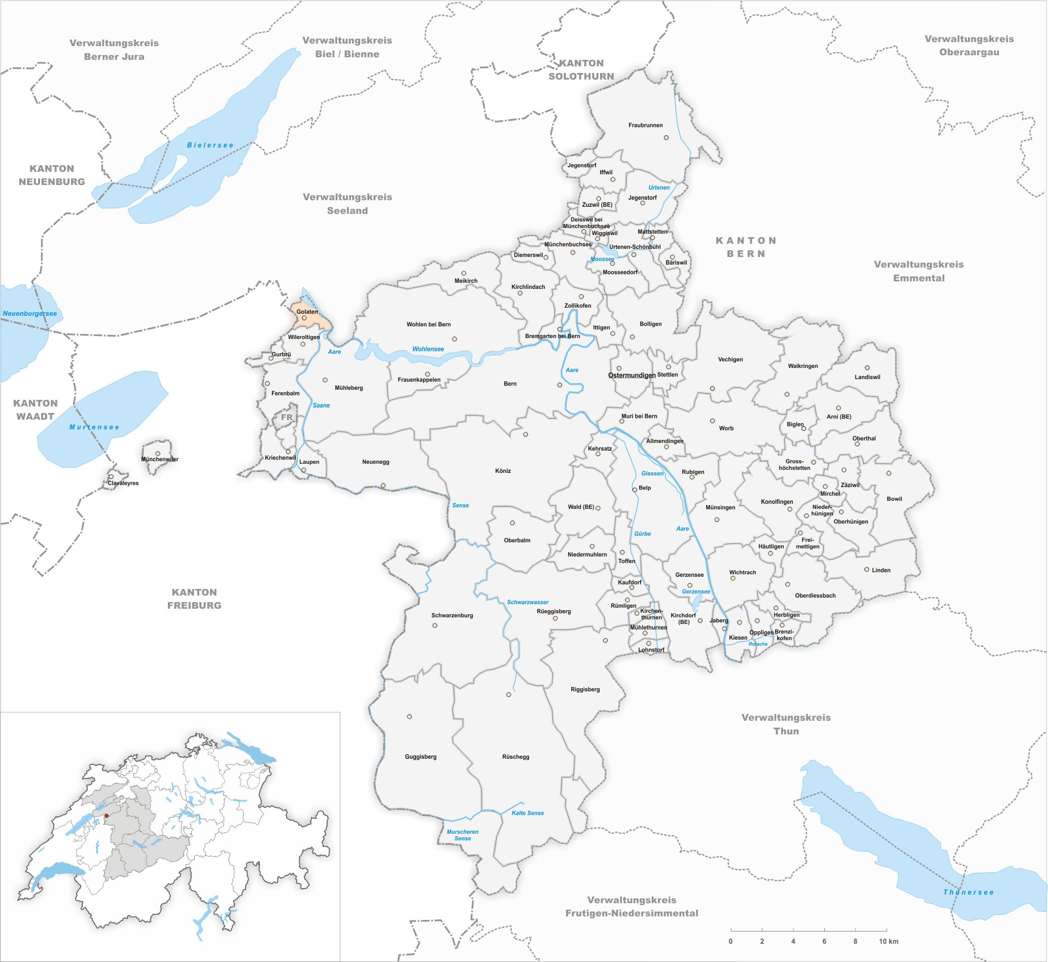 Municipality Golaten